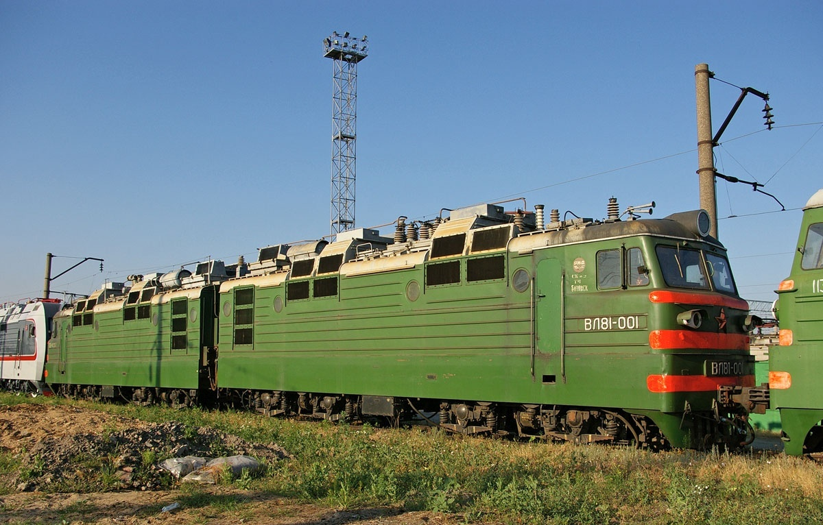 Russian electric locomotive VL81-001